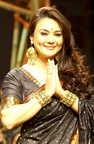 the ramp at Lakme Fashion Week 2017